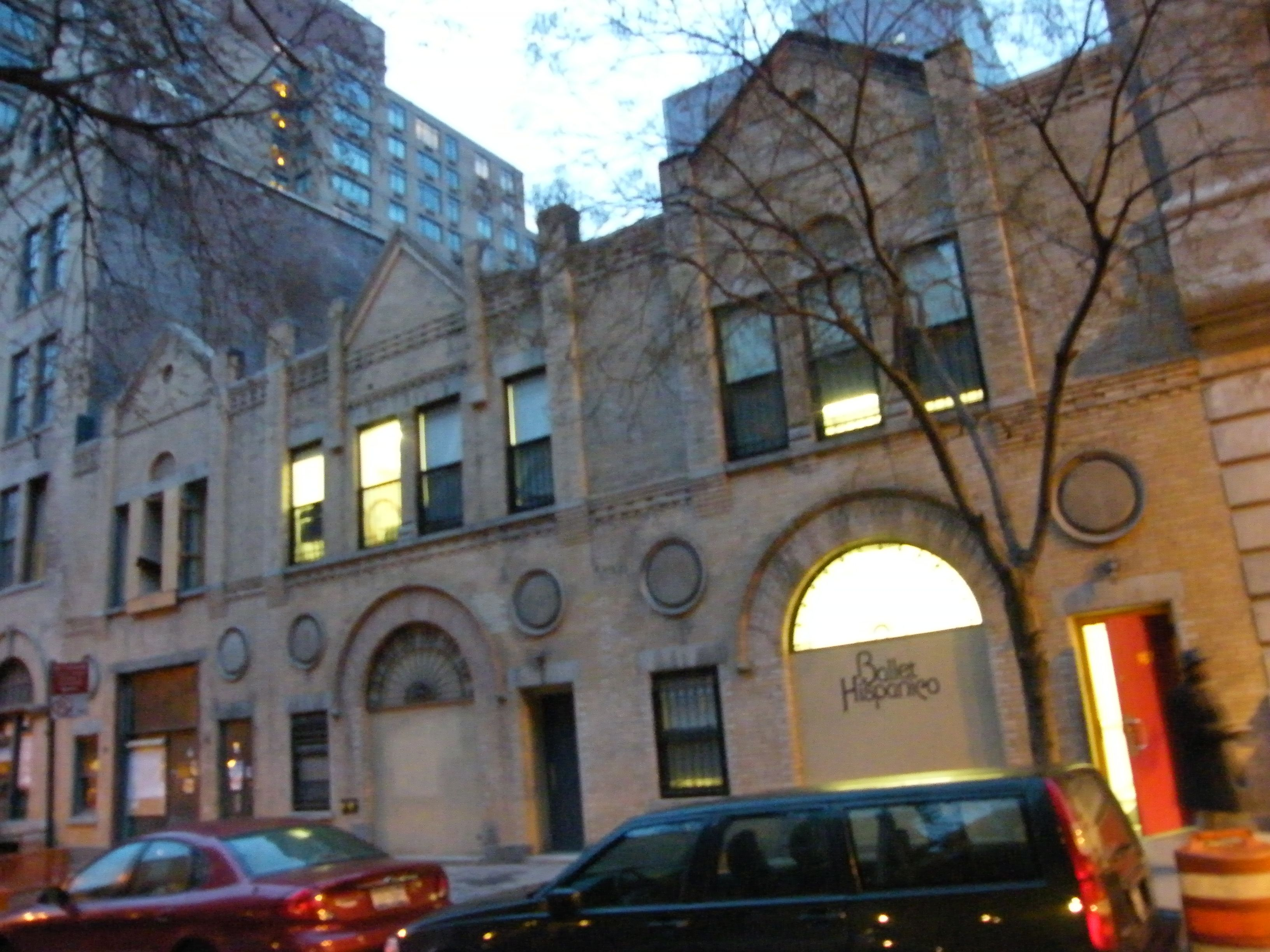 Stables on Upper West home of Ballet Hispanico on National Register of Historic Places in New York City